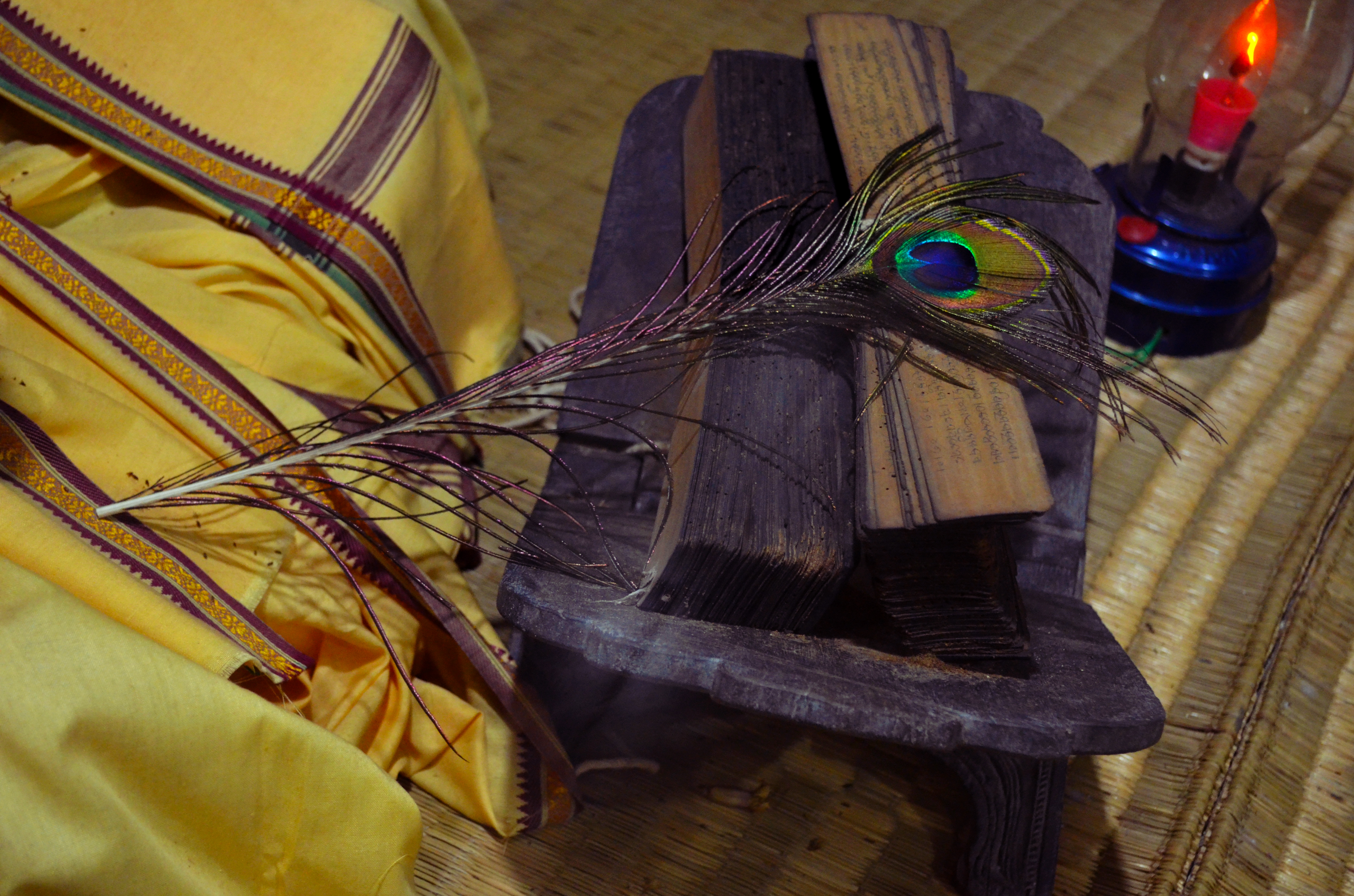 Original palm leaf manuscript of Gita Gobinda (Gita Govinda) written by Jayadeba (Jayadeva), Odisha state museum, Bhubaneswar 2013